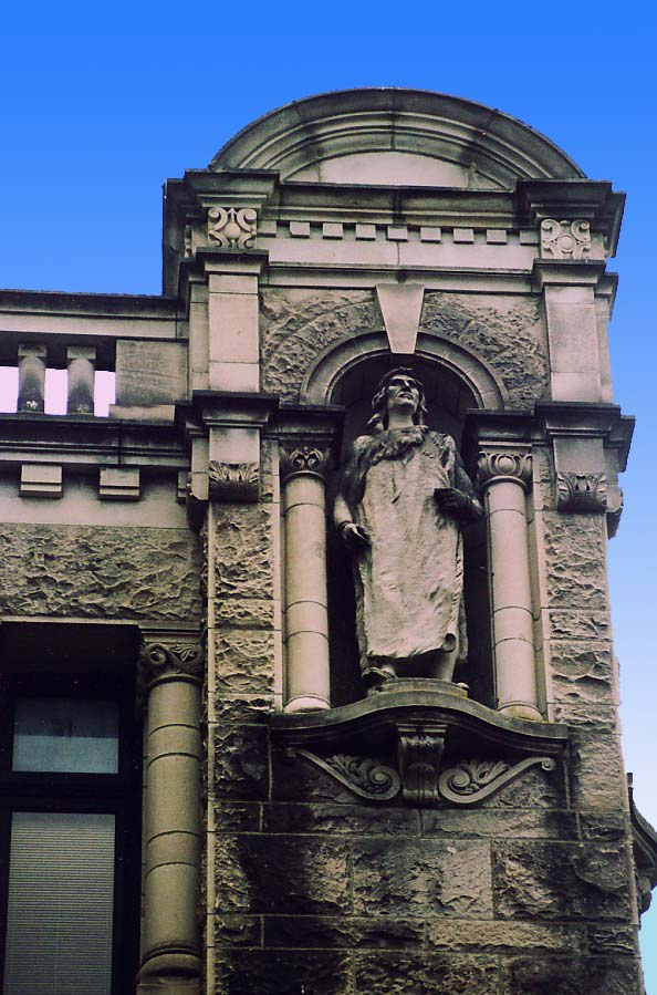 statue of Chief Maquinna by Charles Maragaon the British Columbia Parliament Building